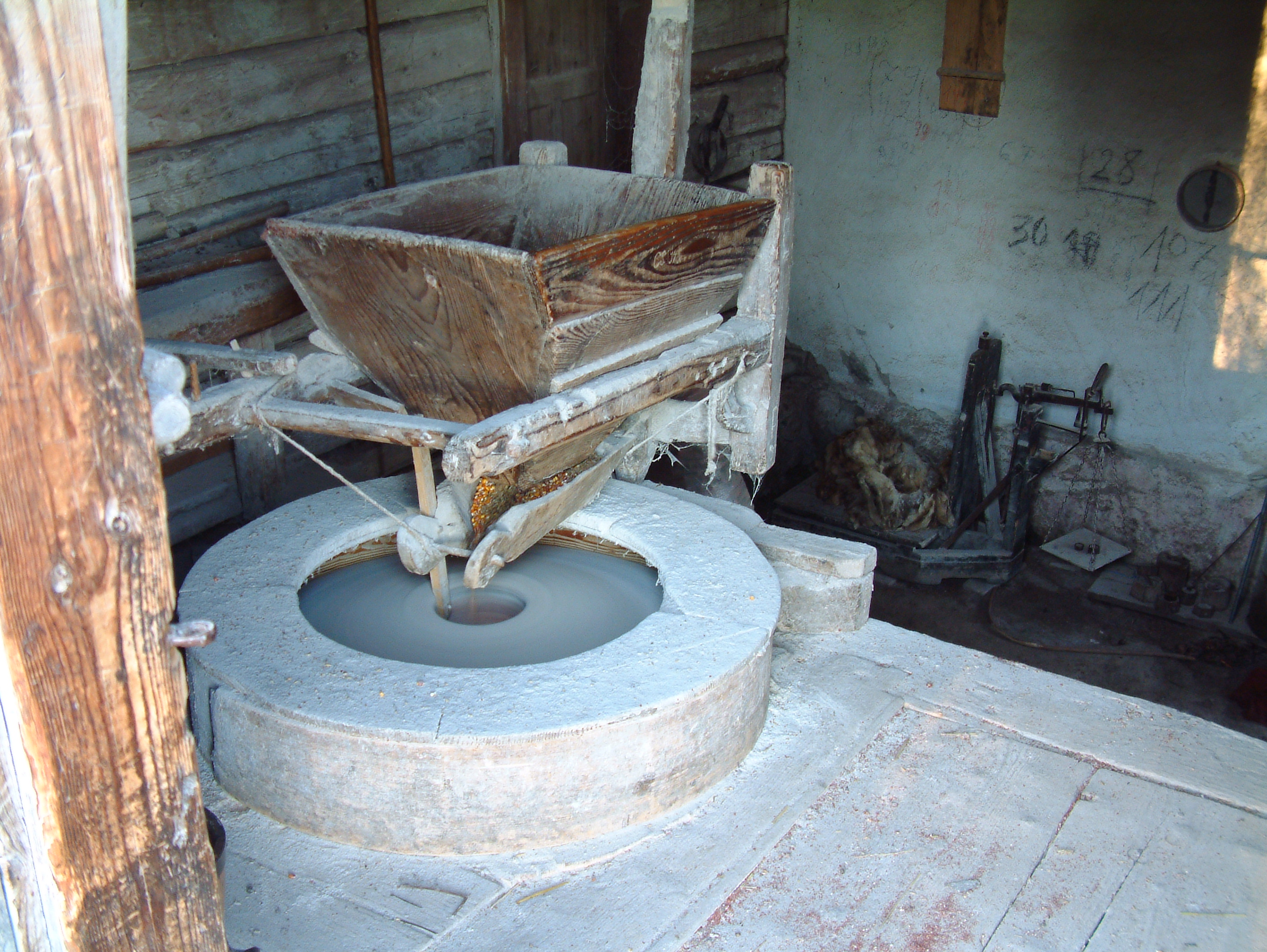 Water Mill in EszenyőVízimalom Eszenyőn (Gyergyóremete)